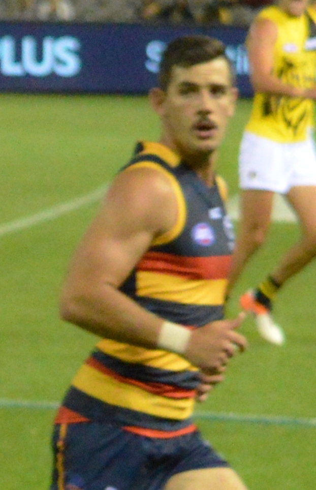 Taylor Walker during the 2017 pre-season